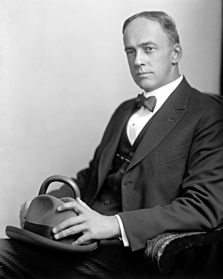 Clifford Walker, Governor of Georgia